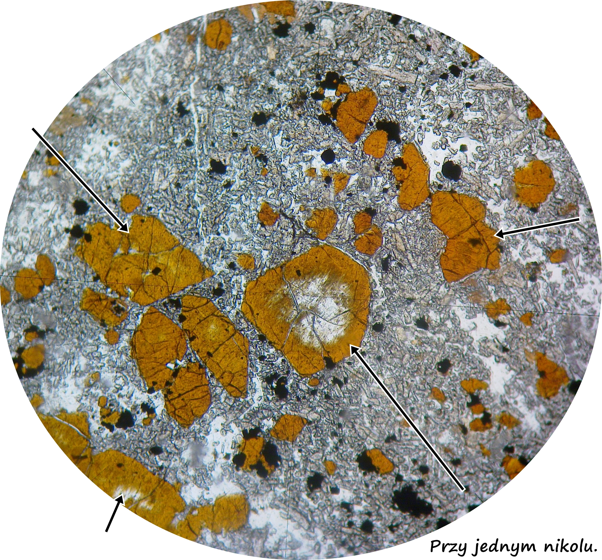 Microscope image of Iddingsite